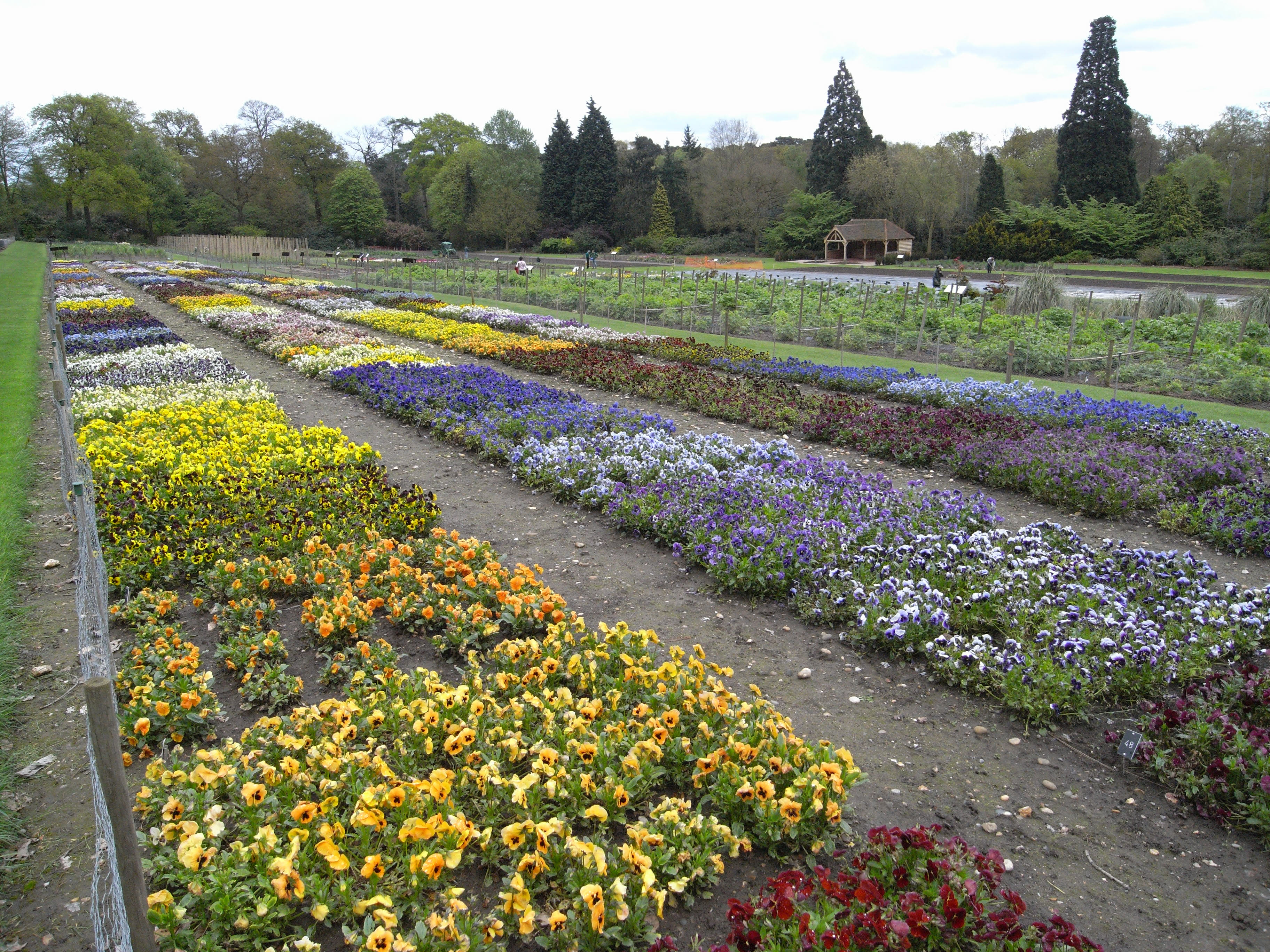 Trial fields at RHS Wisley Garden, where hundreds of plant varieties are assessed for the prestigious Award of Garden Merit.